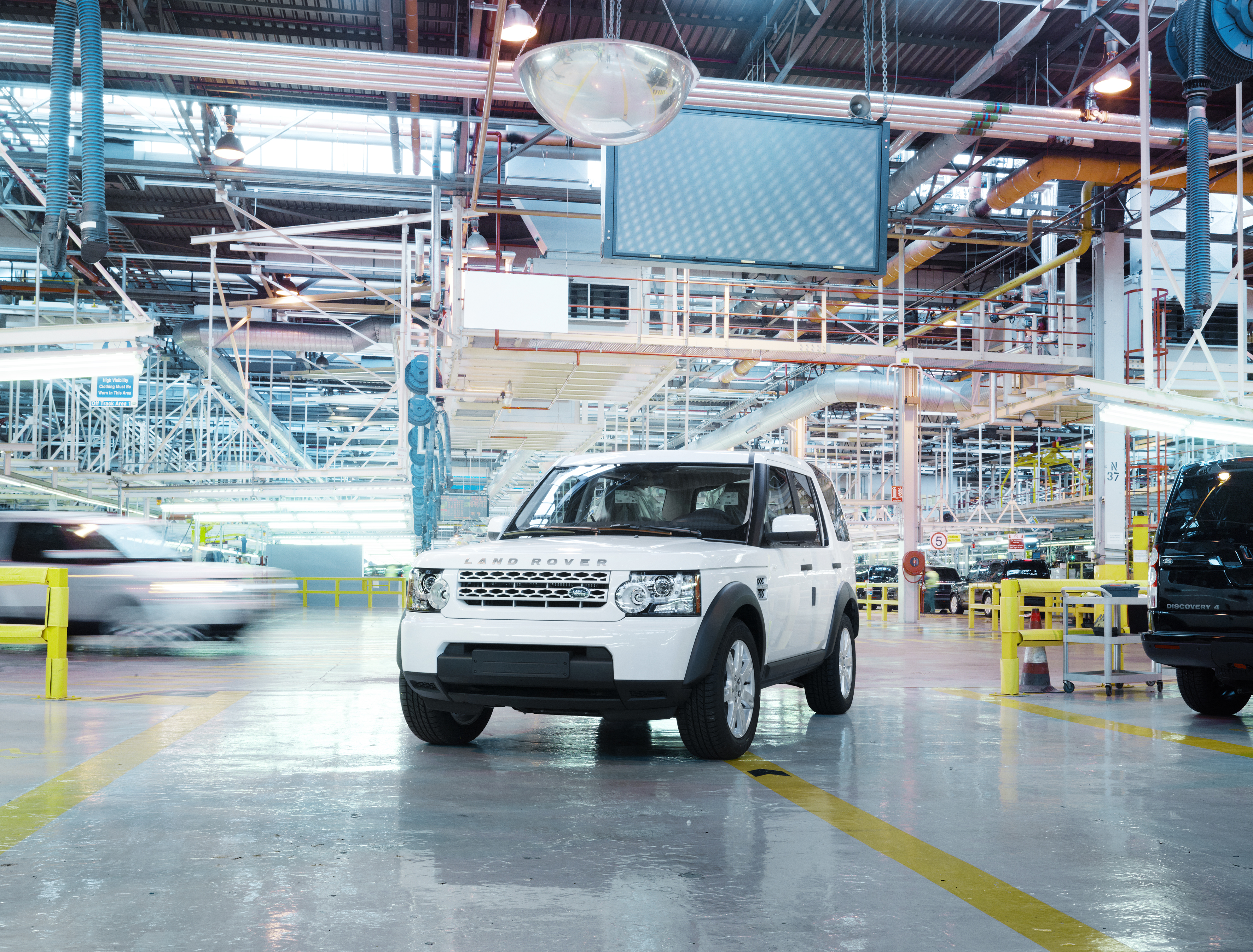 1m_discoverybuild_solihull_21